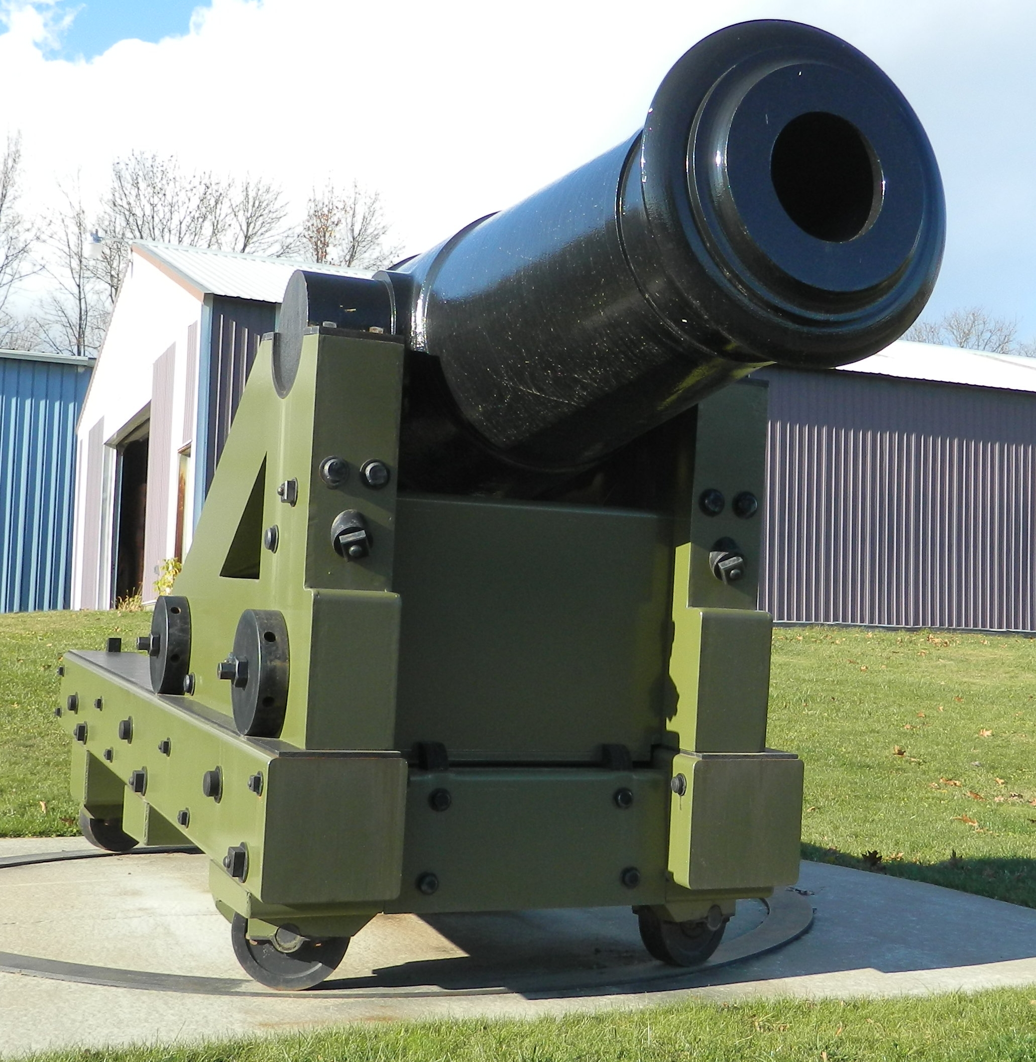 Photograph of a coastal defense gun on a center pivot barbette mount, intended for parapet positions on the coastal fortifications of the United States as part of the Second System of Defense. This gun is a Model 1811 prototype designed by George Bomford, later Chief of Ordnance, U.S. Army. The gun is a 50-pounder Columbiad, bore is 7.25 inches, barrel length is 74 inches, bore length is 63.5 inches. The barrel weighs 6312 pounds. A Columbiad was longer than a howitzer but shorter than a gun. This is a front view. The carriage and chassis restoration is by Paulson Brothers Ordnance of Clear Lake, Wisconsin.